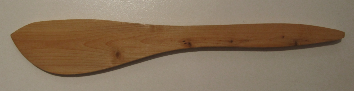 Scandinavian butter knife, solid wood, 1980s.